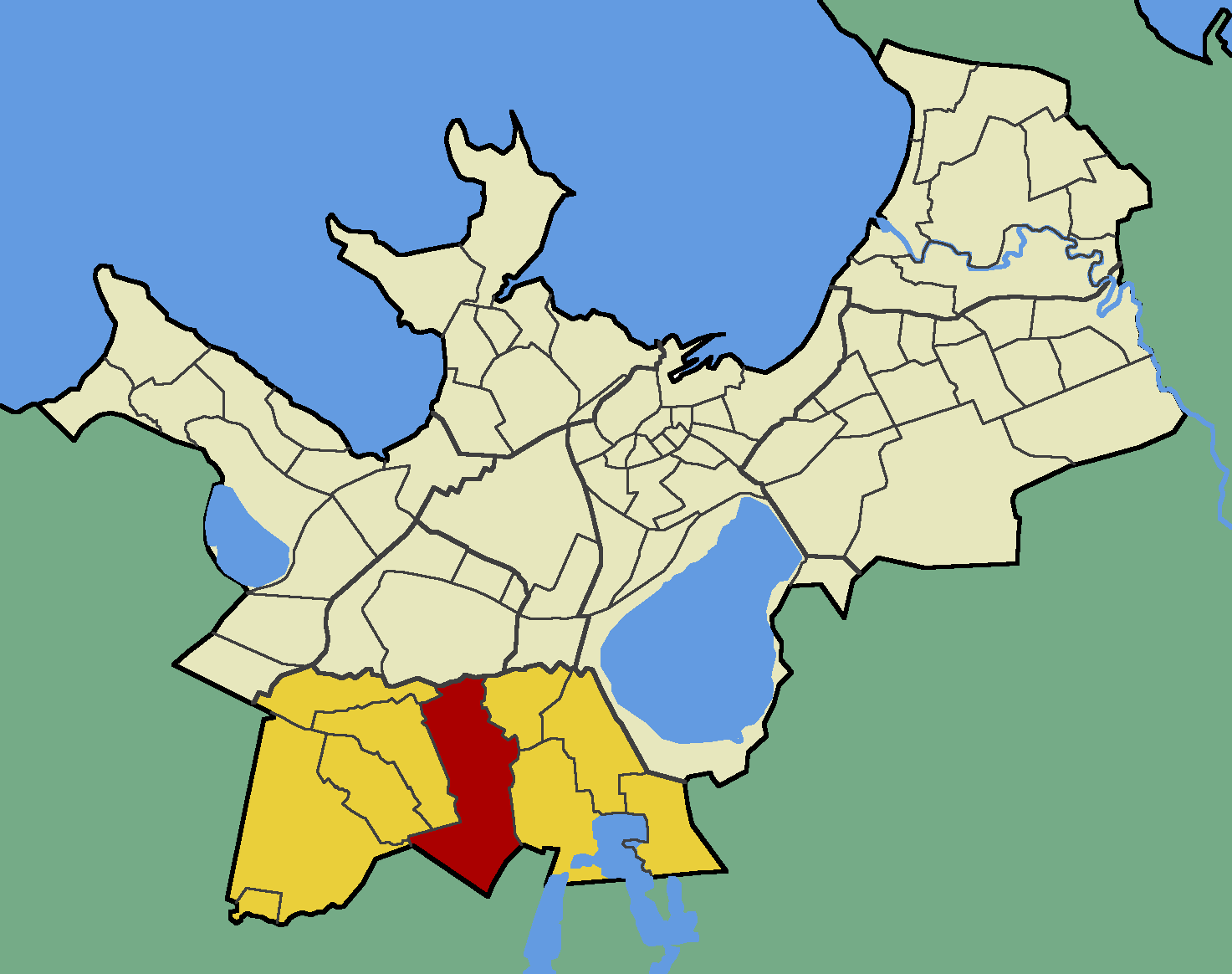 Map of Tallinn (Estonia) with borders of the quarters, Nõmme district and Nõmme quarter emphasised